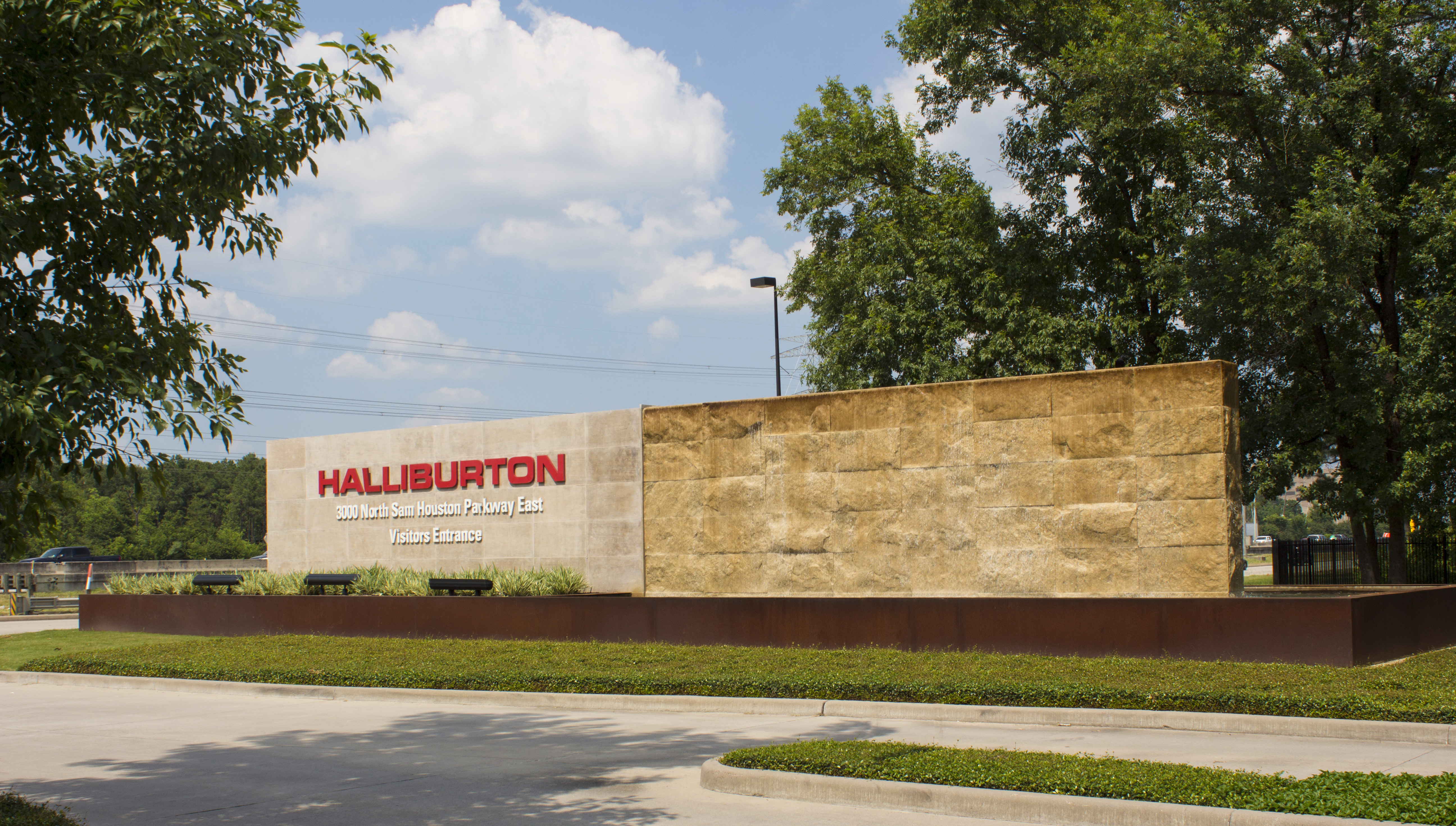 The sign at the entrance to Halliburton's North Belt Campus at 3000 North Sam Houston Parkway E, Houston, TX, which contains its corporate headquarters. This is the view from the West side.